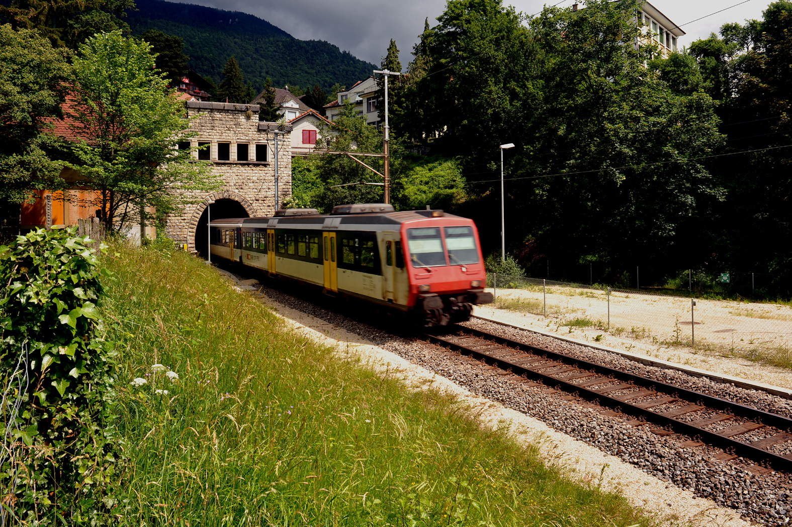 Southern entrance of the Grenchenbergtunnel in Grenchen; Solothurn, Switzerland.